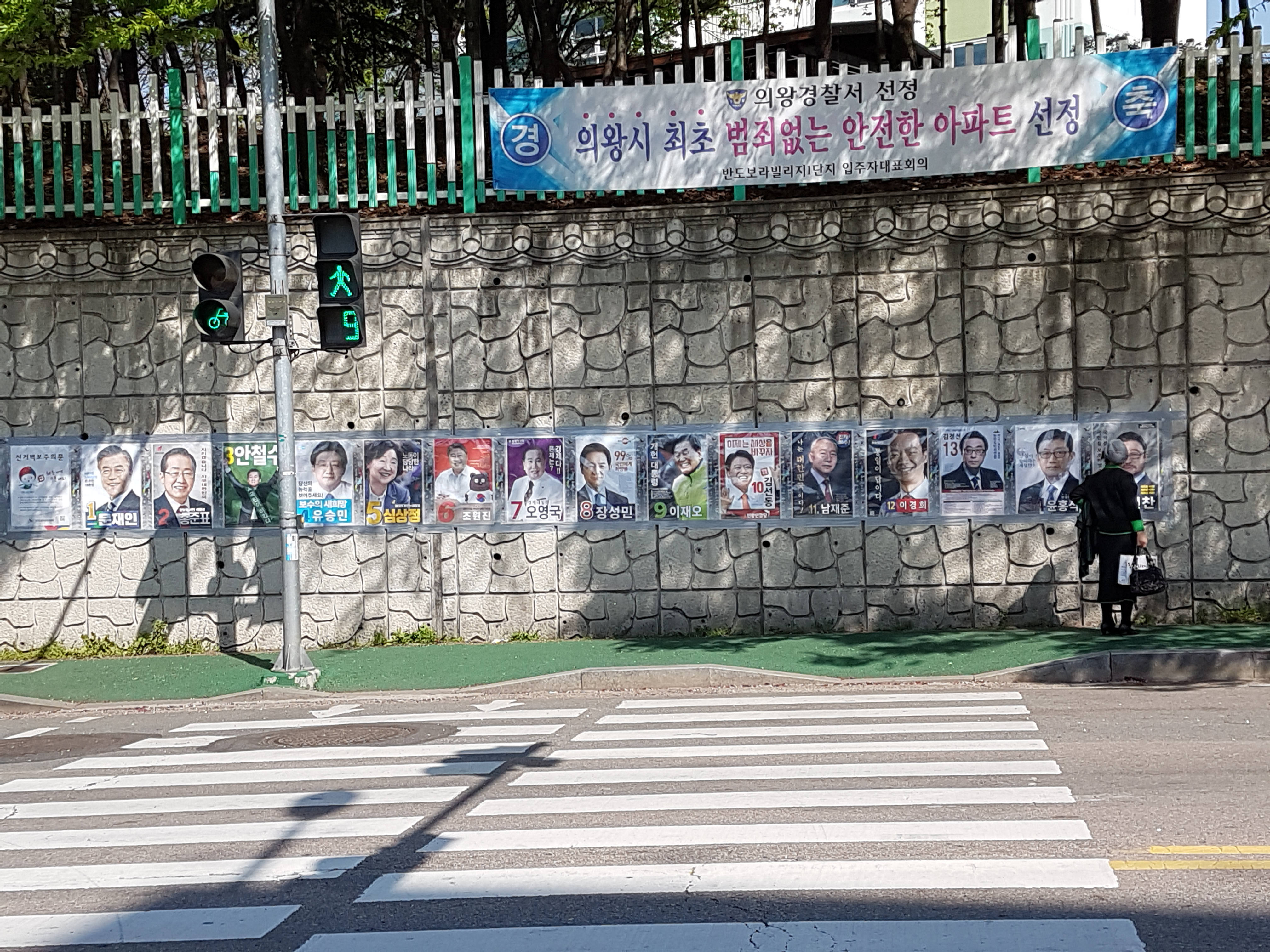 Election posters for the 2017 South Korea presidential election